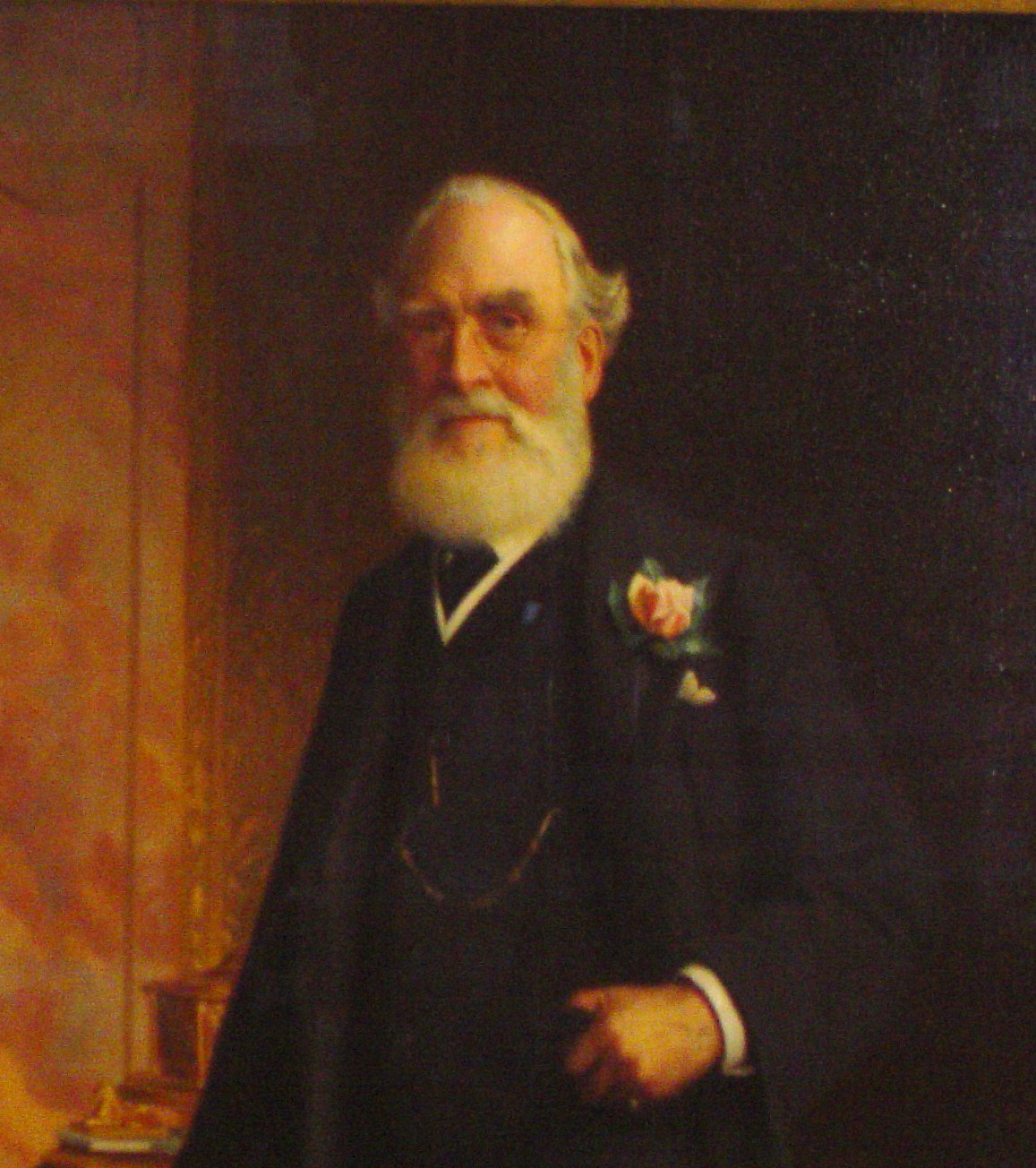 Head and shoulders from a full length portrait of Sir Henry Kimber, MP for Wandsworth 1885 - on display at Wandsworth Civic Centre